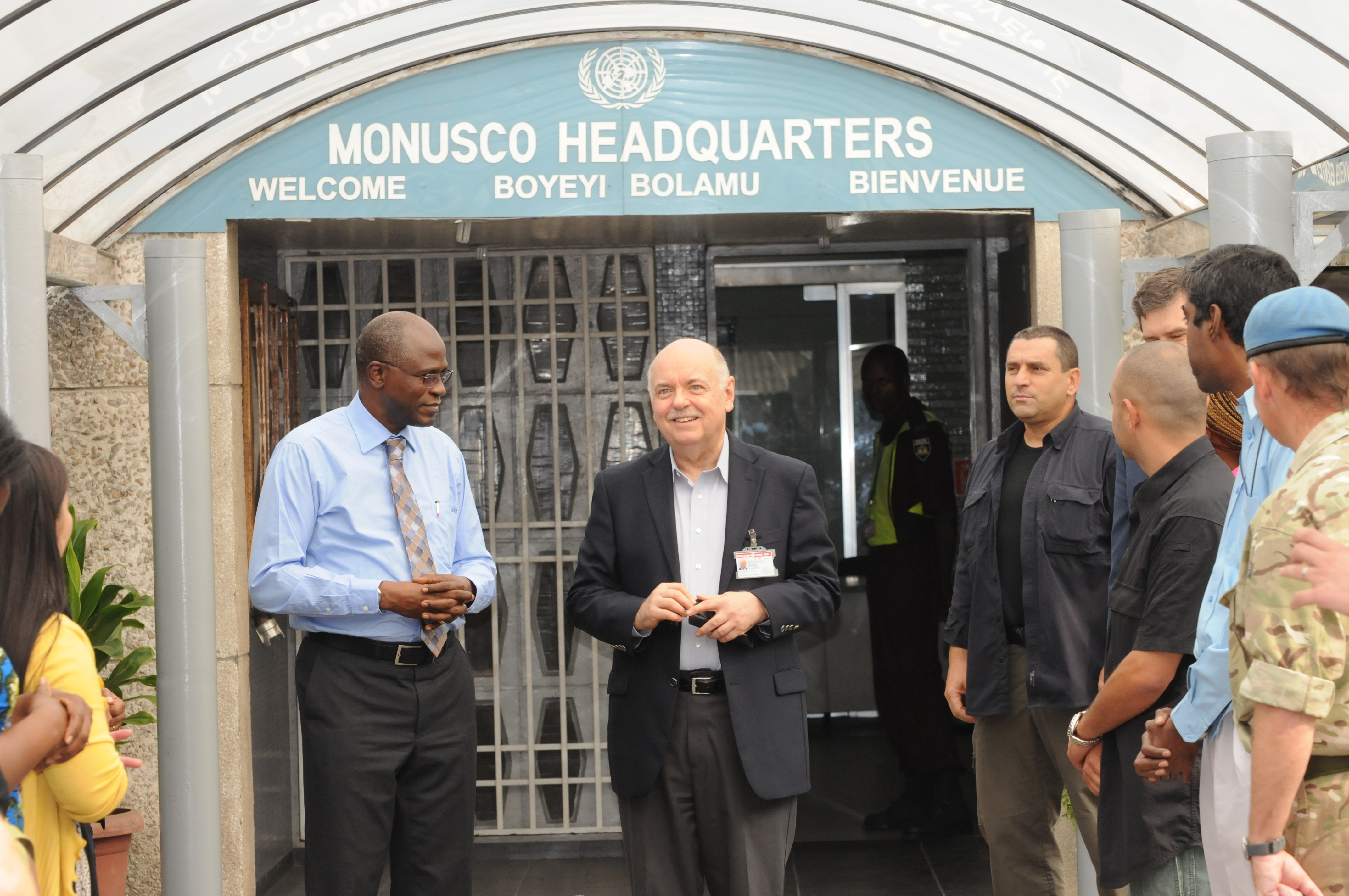 The Head of MONUSCO, Roger Meece, leaving MONUSCO after three years of service as the UN SG Special Representative in the DRC.